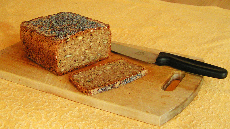 Danish homemade ryebread with whole and broken grain and seeds